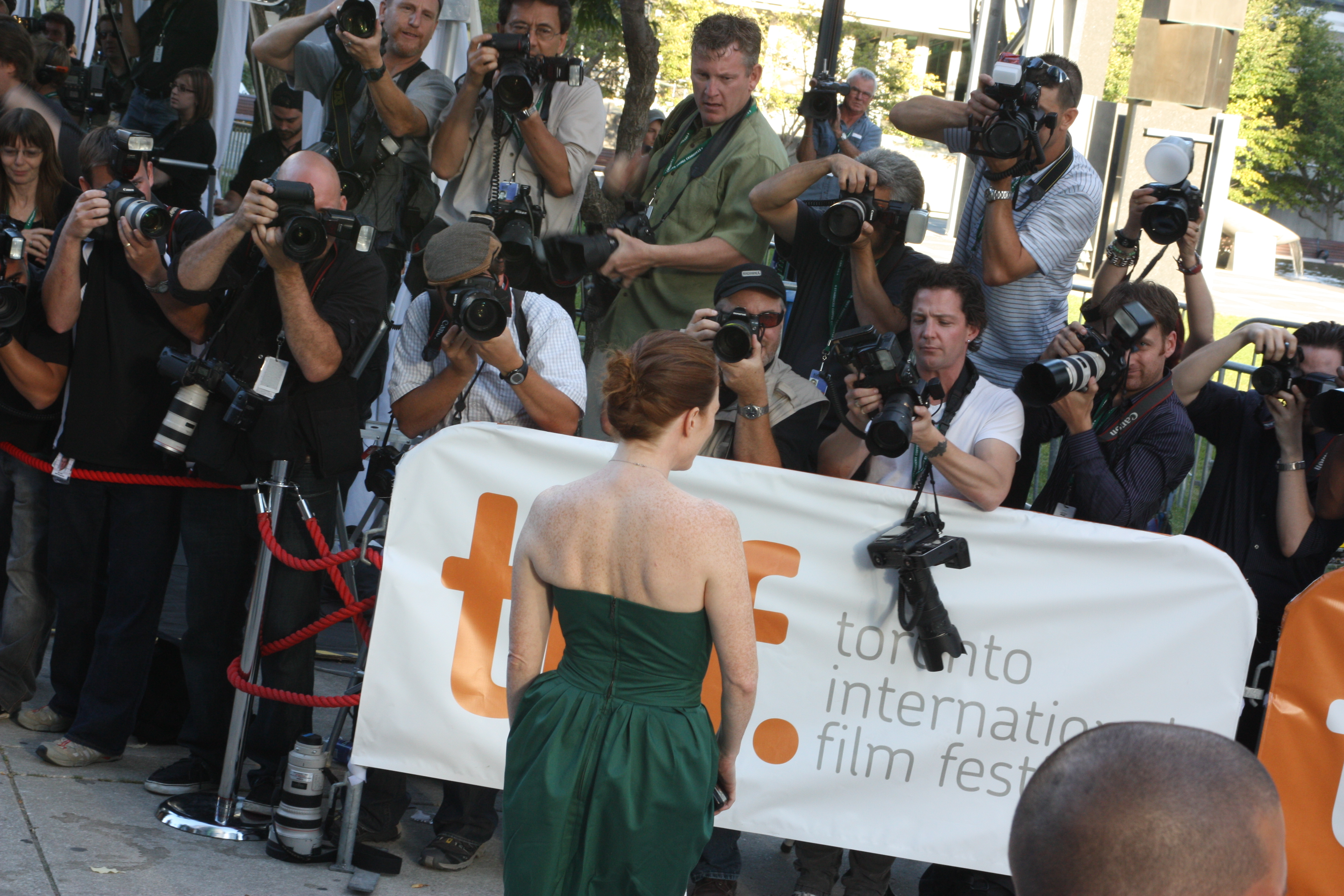 Julianne Moore poses for photographers at TIFF 09